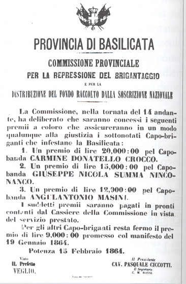 Arrest warrant of the brigands Carmine Crocco, Ninco Nanco and Angelantonio Masini